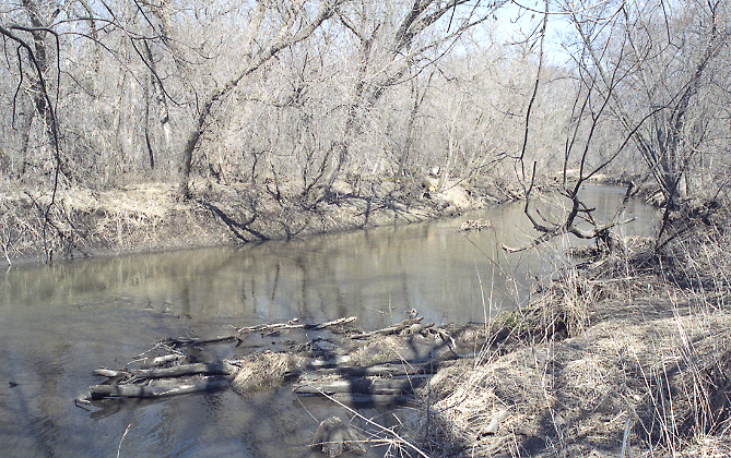 Photograph by Tim Kiser. The North Fork of the Zumbro River at Zumbrota, 17 April 1997.